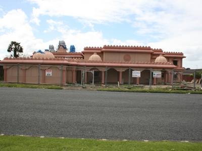 Swaminarayan Mandir in Auckland (NZ - ISSO)